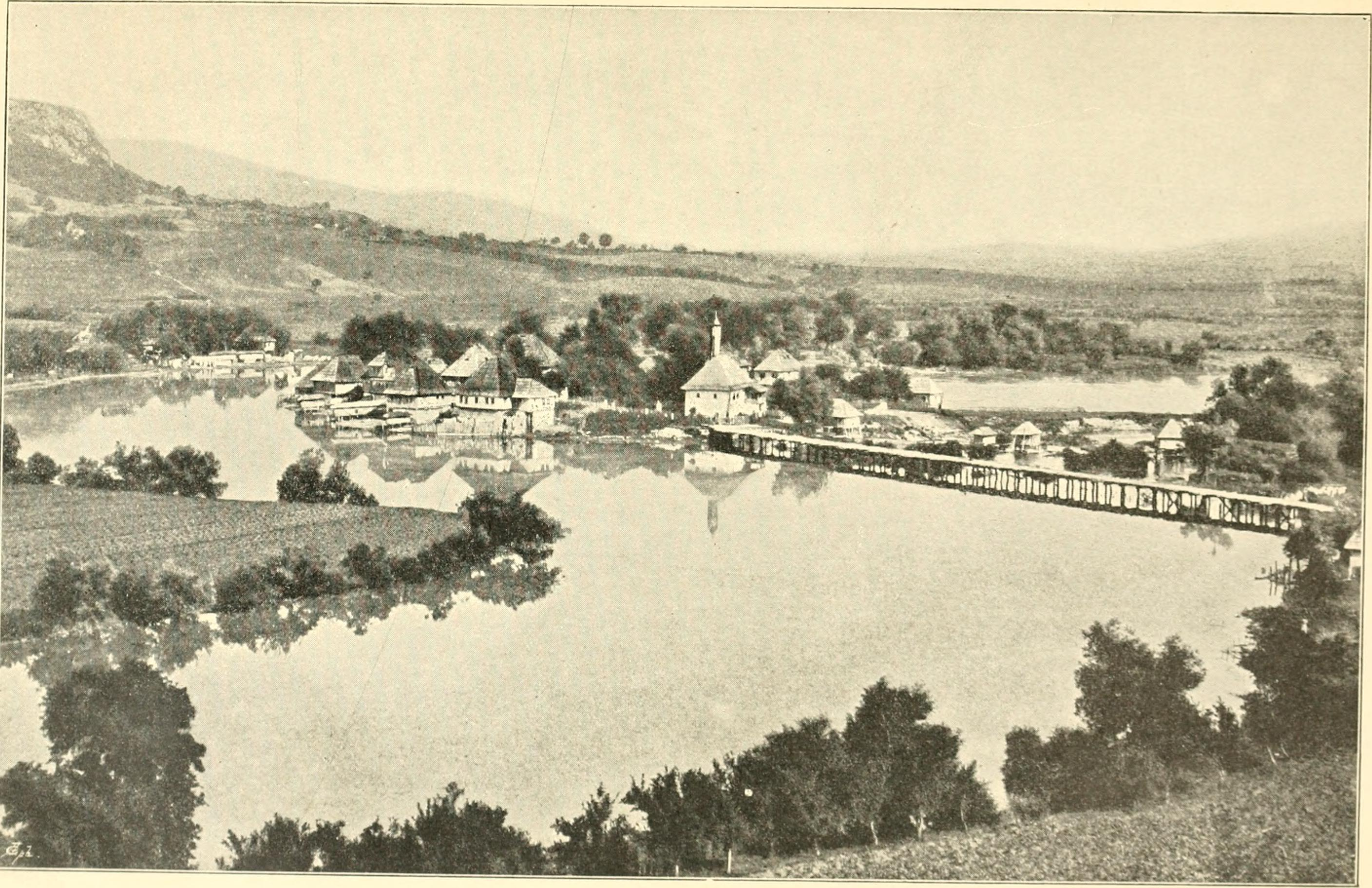 Title: Durch Bosnien und die Herzegovina kreuz und quer; Wanderungen Year: 1897 (1890s) Authors: Renner, Heinrich Subjects: Bosnia and Hercegovina -- Description and travel Publisher: Berlin D. Reimer (E. Vohsen) Text Appearing Before Image: Altes Thor in Bihac. auf drei Meter Höhe erhaltenen Umfassungsmauern und Reste von vierrunden Thürmen erhalten sind. Von den Umwohnern wird die Ruine»Forkolangrad« genannt. Wie der prähistorische Pfahlbau entdeckt wurde, schildert der in-zwischen verstorbene Berghauptmann W. Radimsky in den »Wissensch.Mitth.« des bosnisch-hercegovinischen Landesmuseums in folgender Weise:1891 besuchte er die Nekropole von Jezerine zum ersten Male und daführte ihn der Pfarrer Kosta Kovacevic aus Pritoka zu einer Stelle gegen-über von Golubic, an der vor etwa 20 Jahren die Unna infolge des Hoch-wassers ihren Lauf geändert hatte, worauf in dem neuen Flussbette eineMenge von Pfählen zum Vorschein gekommen war. — 530 — Text Appearing After Image: '